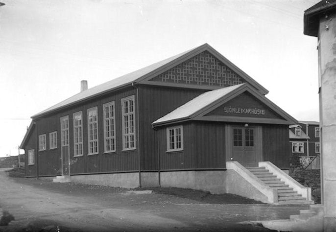 Sjónleikarhúsið - the newly constructed theater building in Tórshavn in 1926.